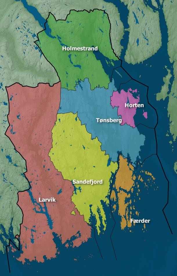 Planned municipalities in Vestfold, Norway from year 2020. Borders may be adjusted, so this is not an exact map.